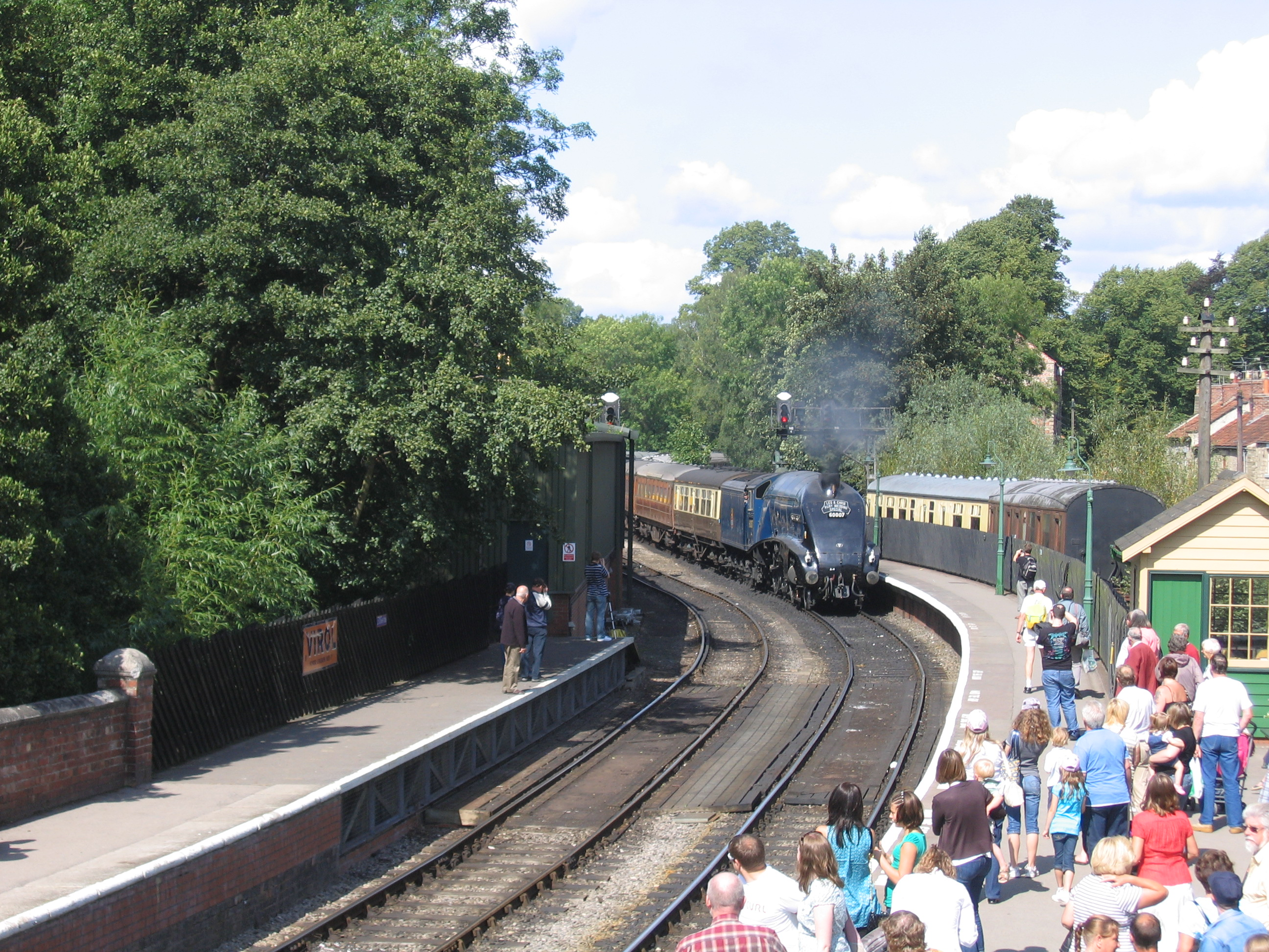 Pickering Station, NYMR